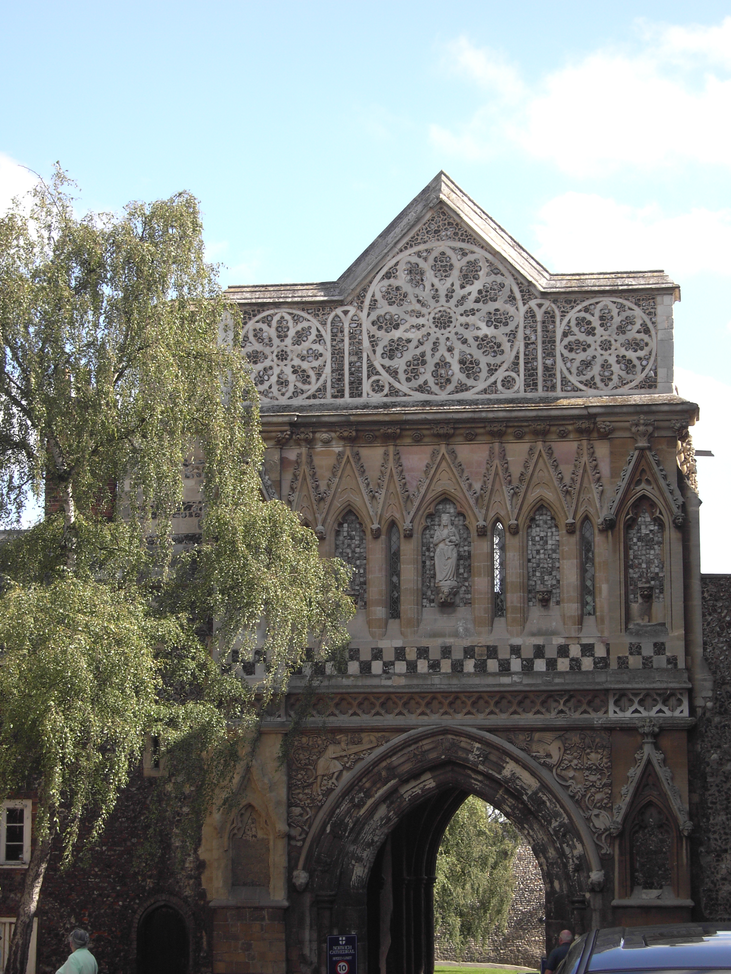 Ethelbert Gate, to Norwich Cathedral. Taken on the 2006 Sponsored Bike Ride for The Norfolk Churches Trust, 2006-09-09. Gate seen from the Tombland side.